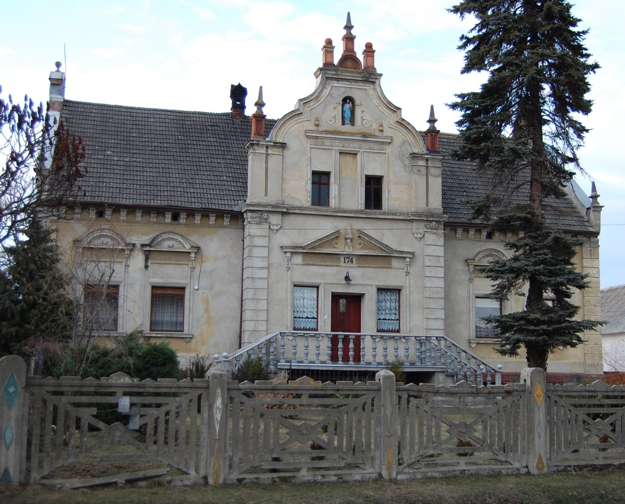 Residentional house from Zlotoglowice, XIX century.